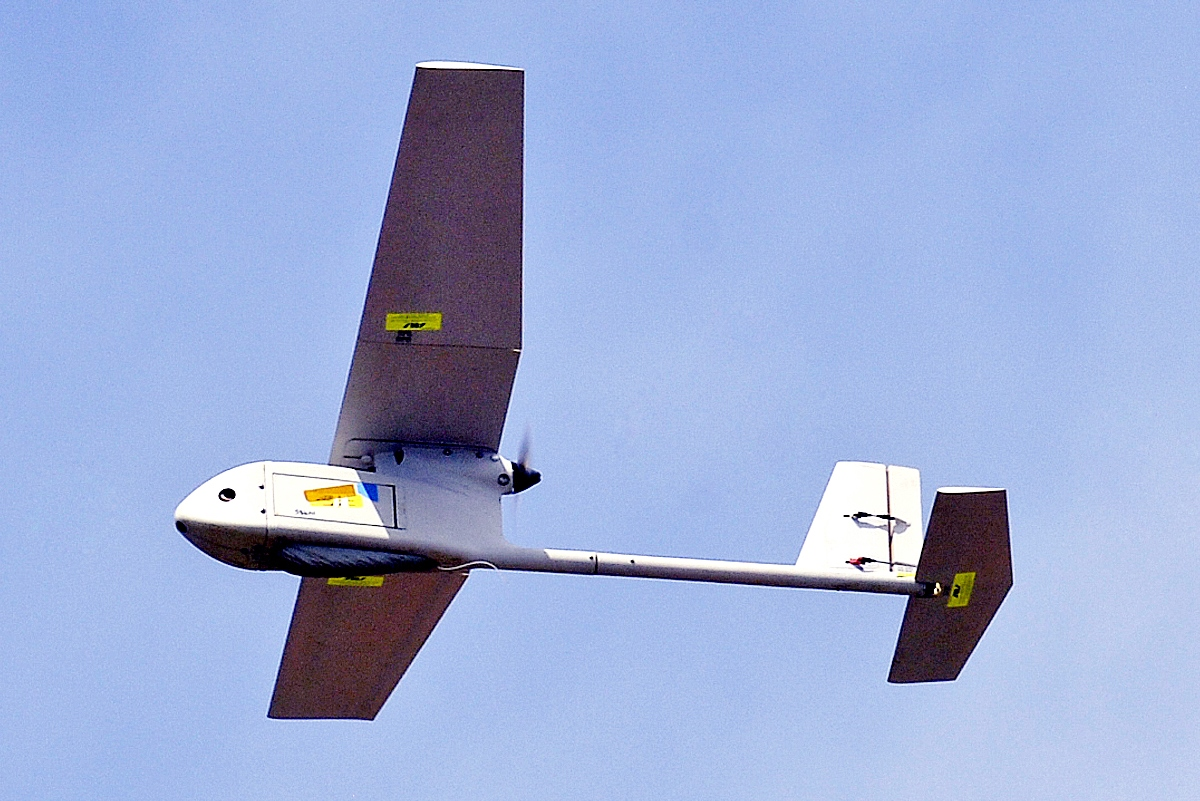 An unmanned aerial vehicle with a camera mounted on board was the focus of a Remote Operated Video Enhanced Receiver demonstration July 28 at the U.S. Air Force Academy. The ROVER is basically a laptop with antennas that receives video captured by a UAV that shows real-time, nearby dangers allowing ground troops to make quick decisions regarding air strikes. (U.S. Air Force photo/Dennis Rogers)